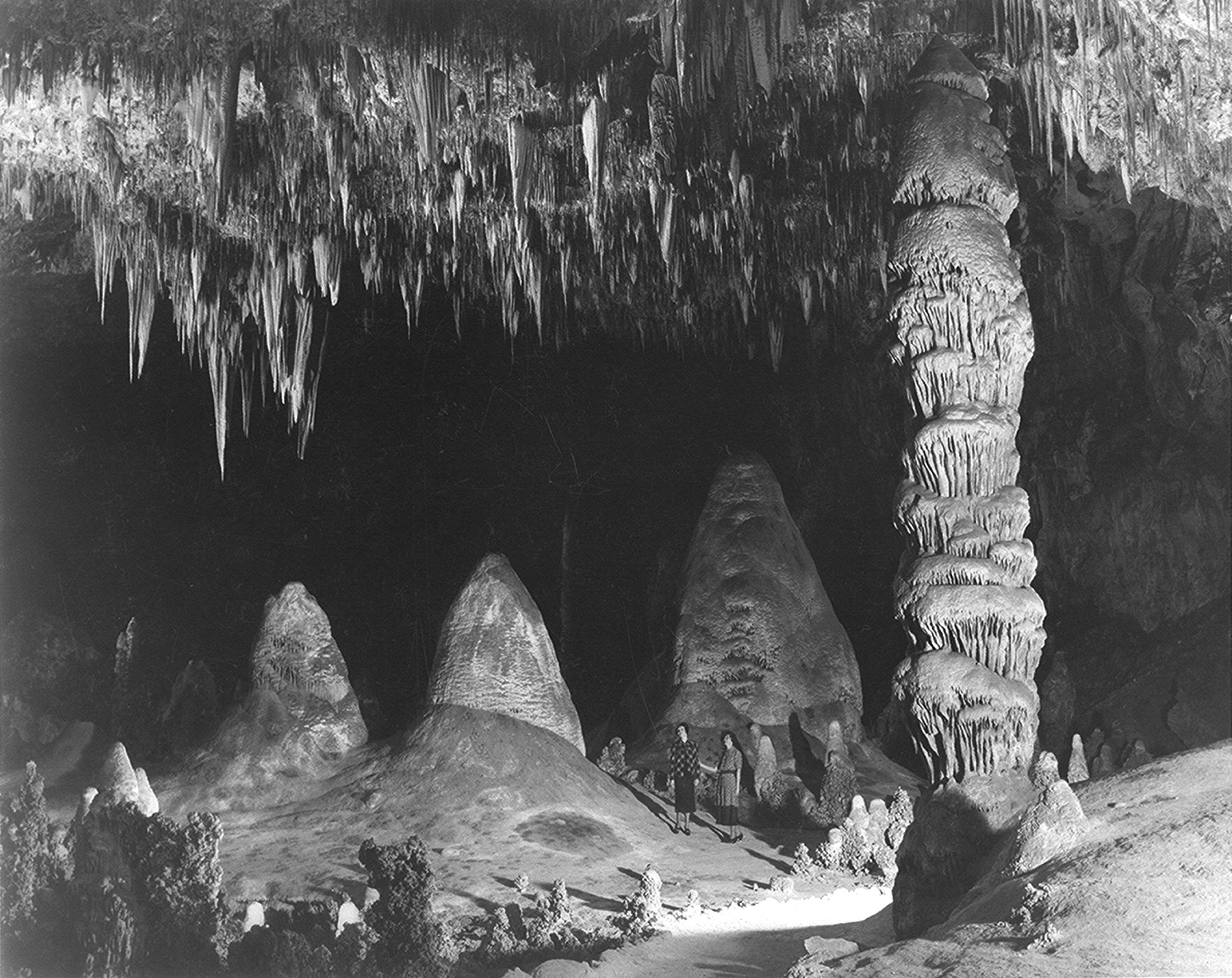 79-AAW-27 "The Big Room," two people in background. Carlsbad Caverns 1942, Ansel Adams -May need an ultra high resolution scan to do justice to this print -Mak 04:52, 4 April 2006 (UTC)